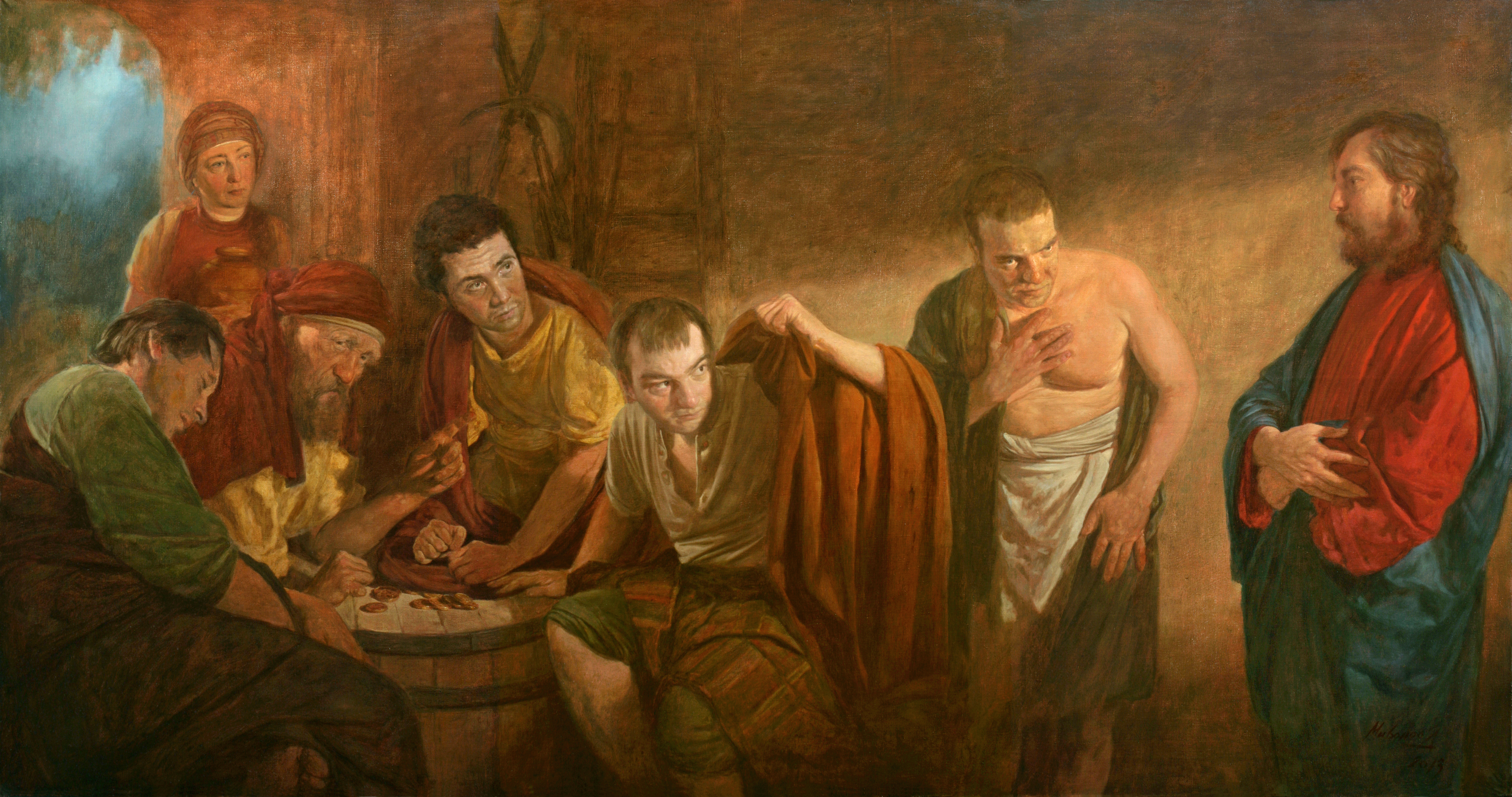 The parable of the wicked workers of the vineyard. 2013. oil on canvas. 90×170 Artist Andrey Mironov